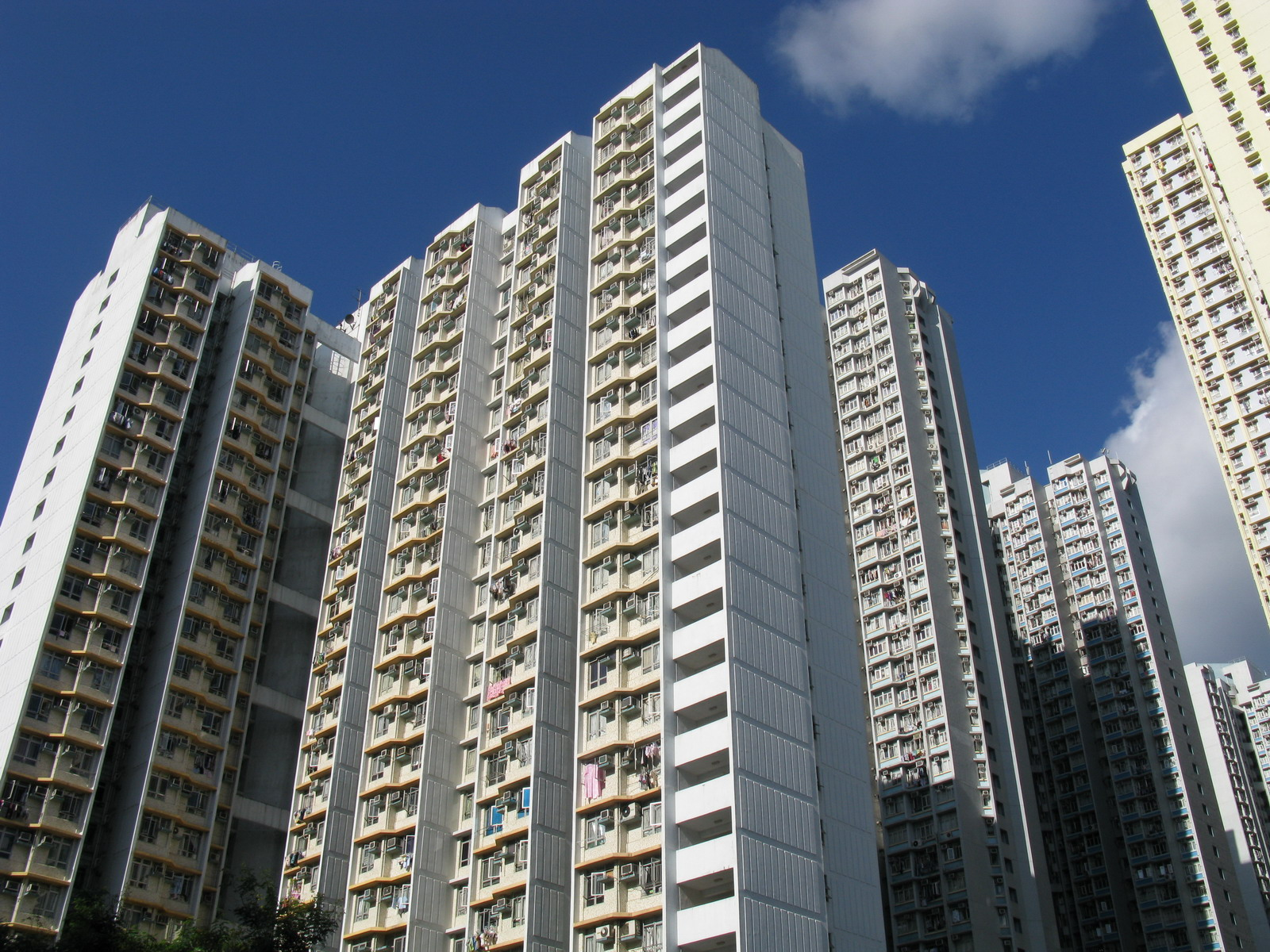 Tsz On Court, Tsz Wan Shan